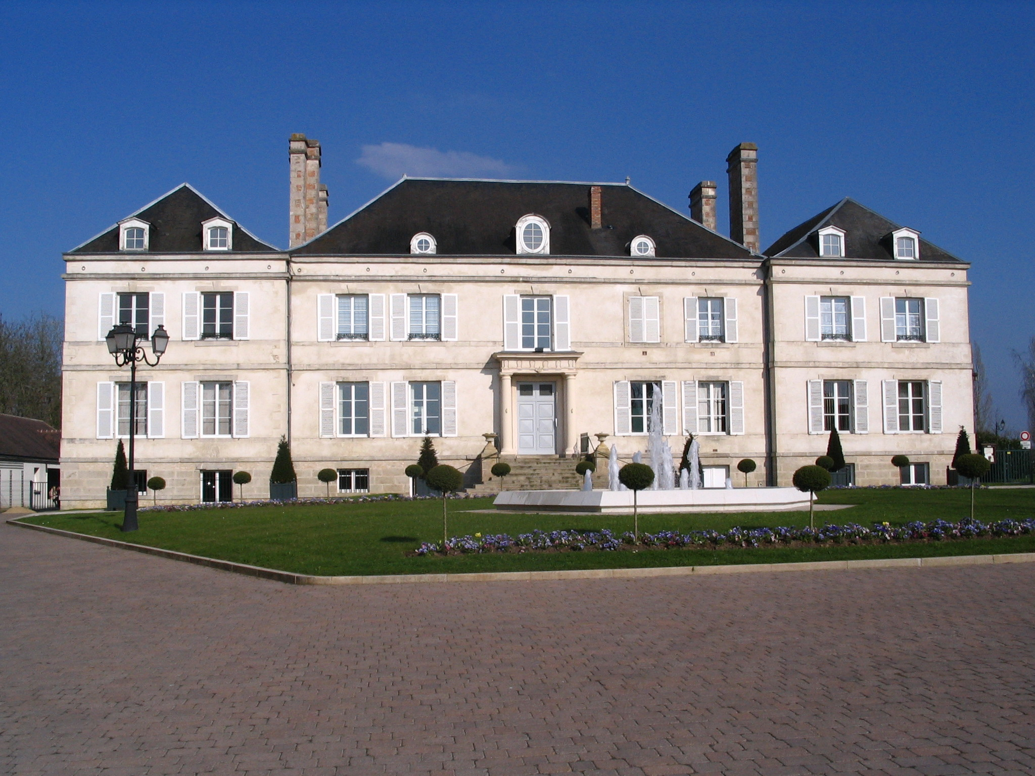 The castle of Le Chevain, Departement of Sarthe, France.